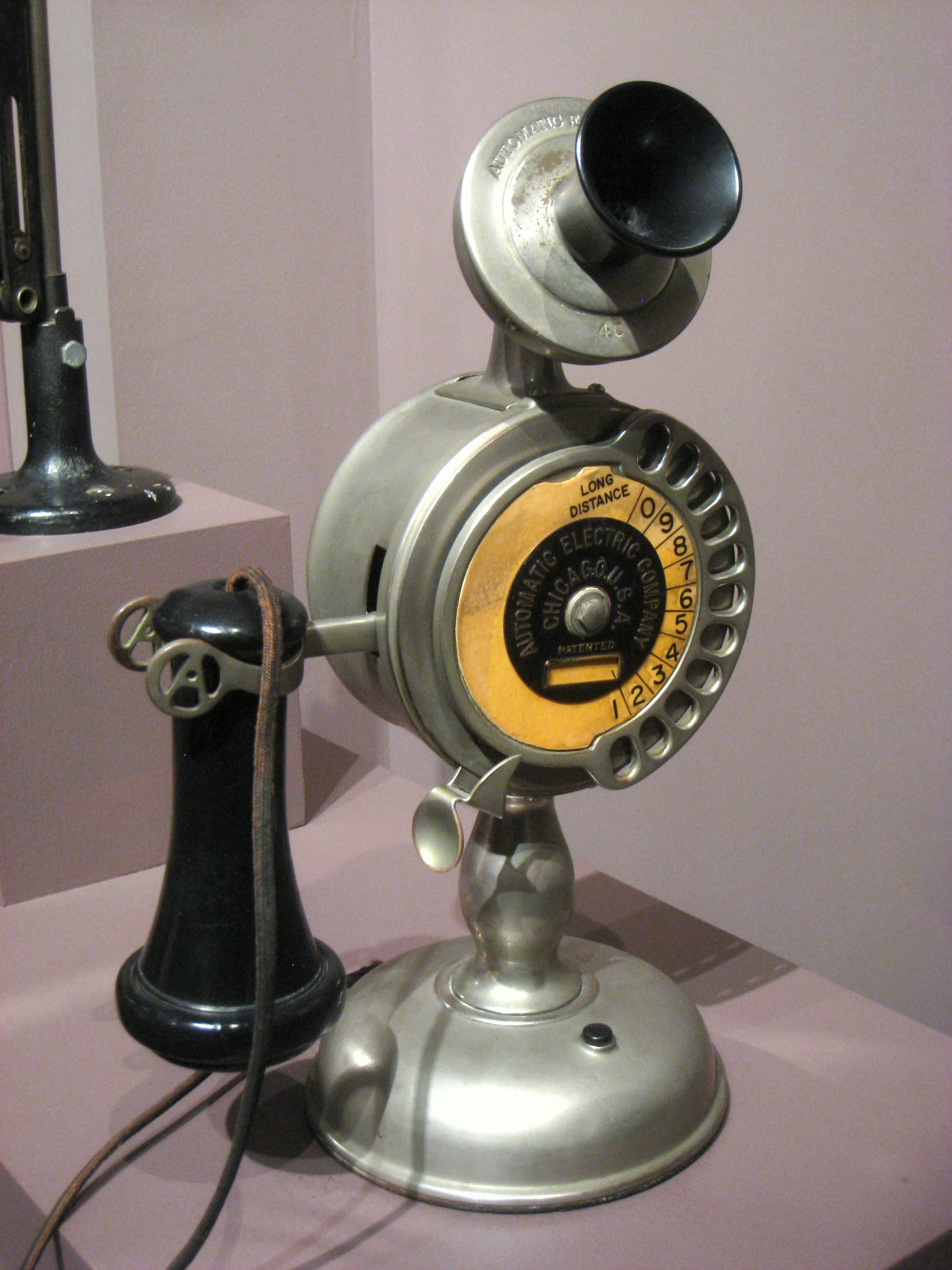 Telephone, 1907, manufactured by Automatic Electric Company, Chicago, Illinois, USA. Exhibit in the Wolfsonian-Florida International University Museum, 1001 Washington Avenue, Miami Beach, Florida, USA. Photography was permitted in this area of the museum without restrictions.